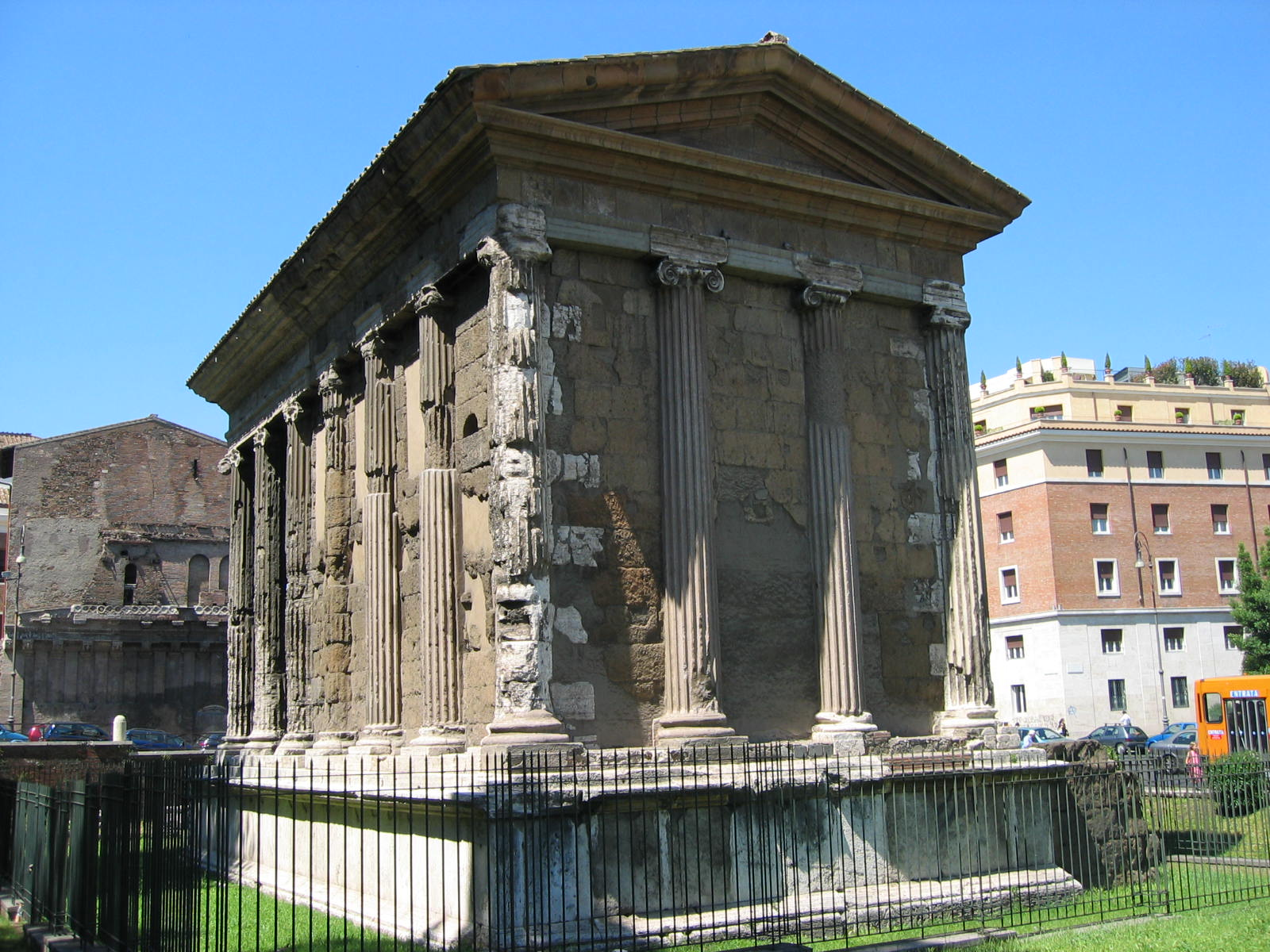 Temple of Portunus, backside, Rom.